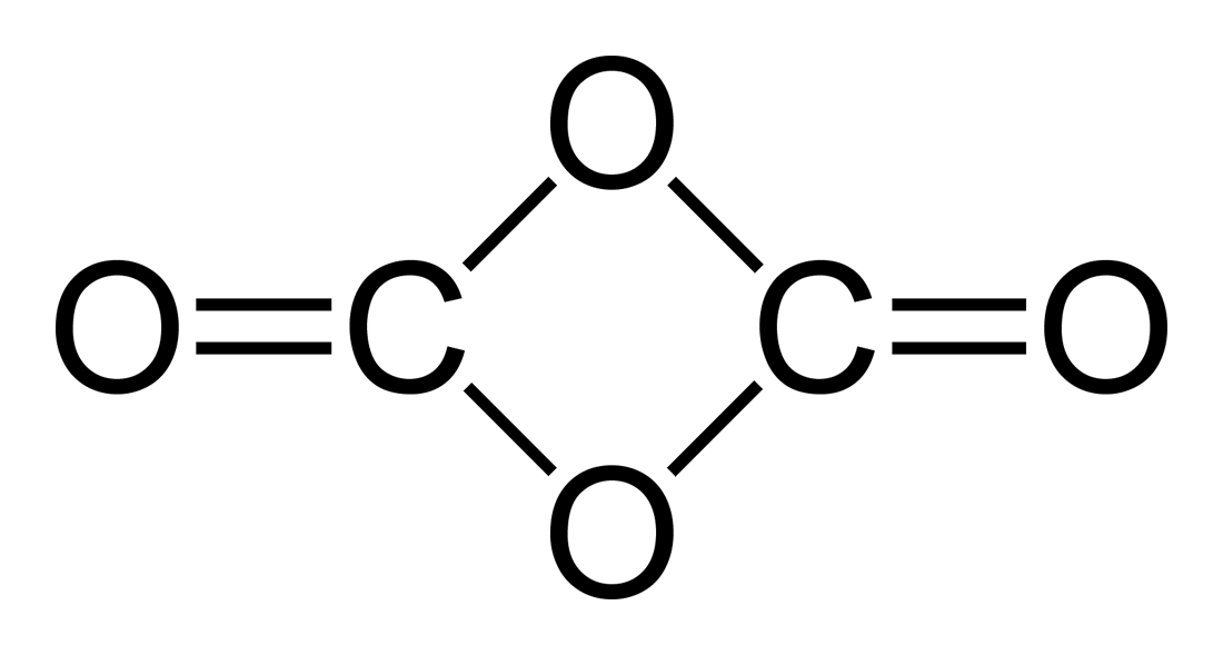 Structural formula of the 1,3-dioxetanedione molecule, C2O4. Structure drawn in ChemDraw Ultra 11.0.